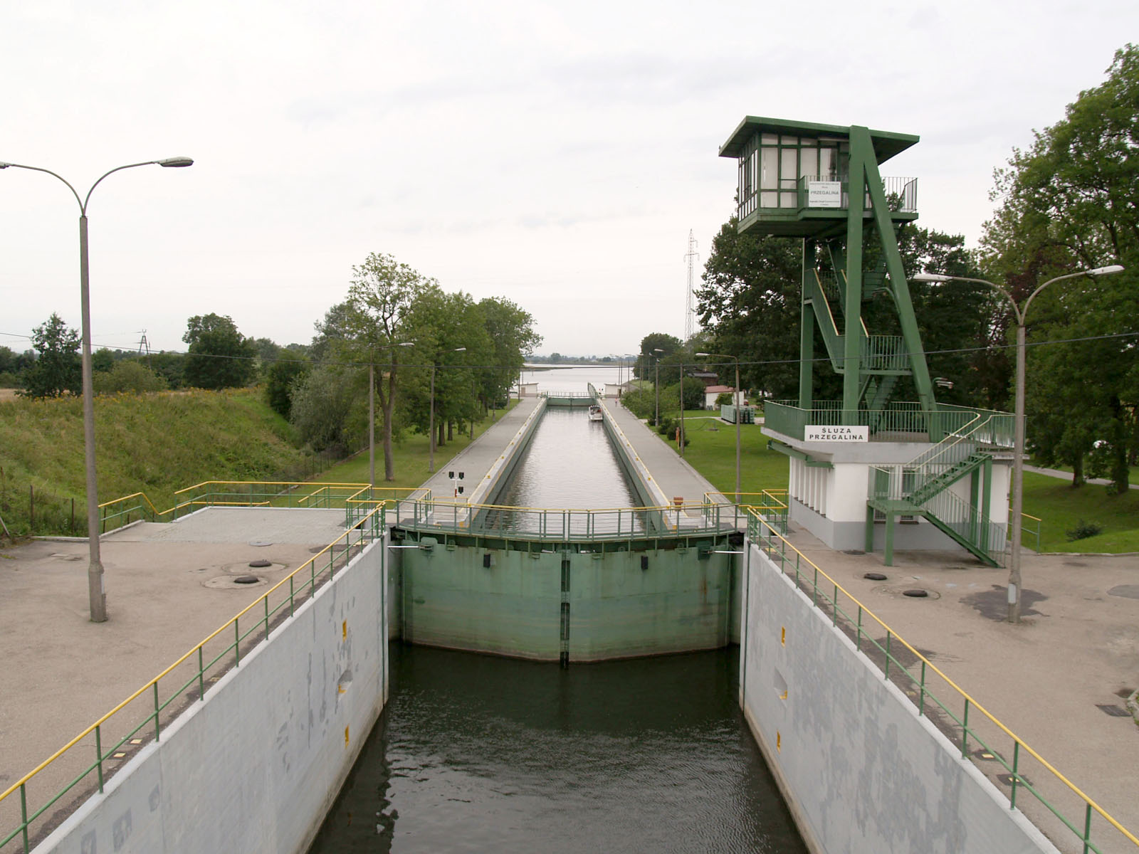 Poland, the Lock in Przegalina by Gdańsk.